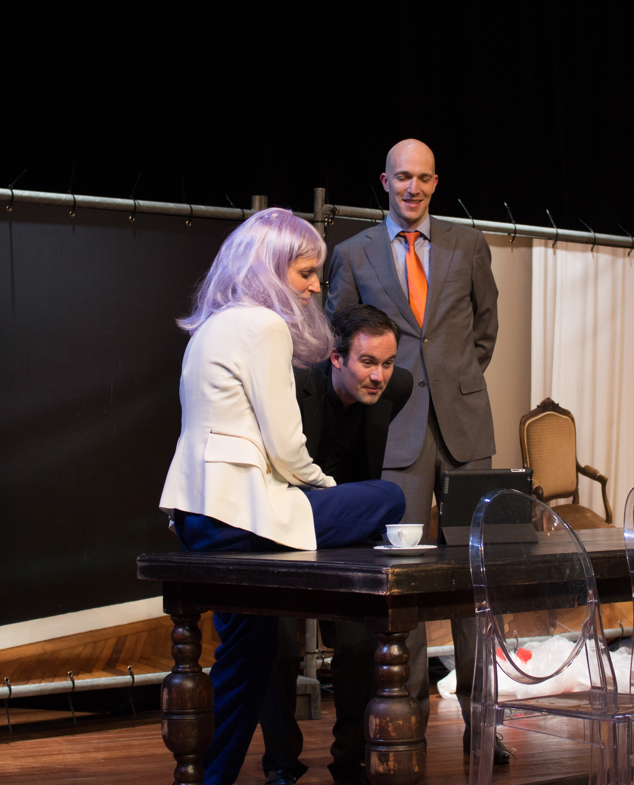 mugmetdegoudentand at Brainwash Festivaal 2015